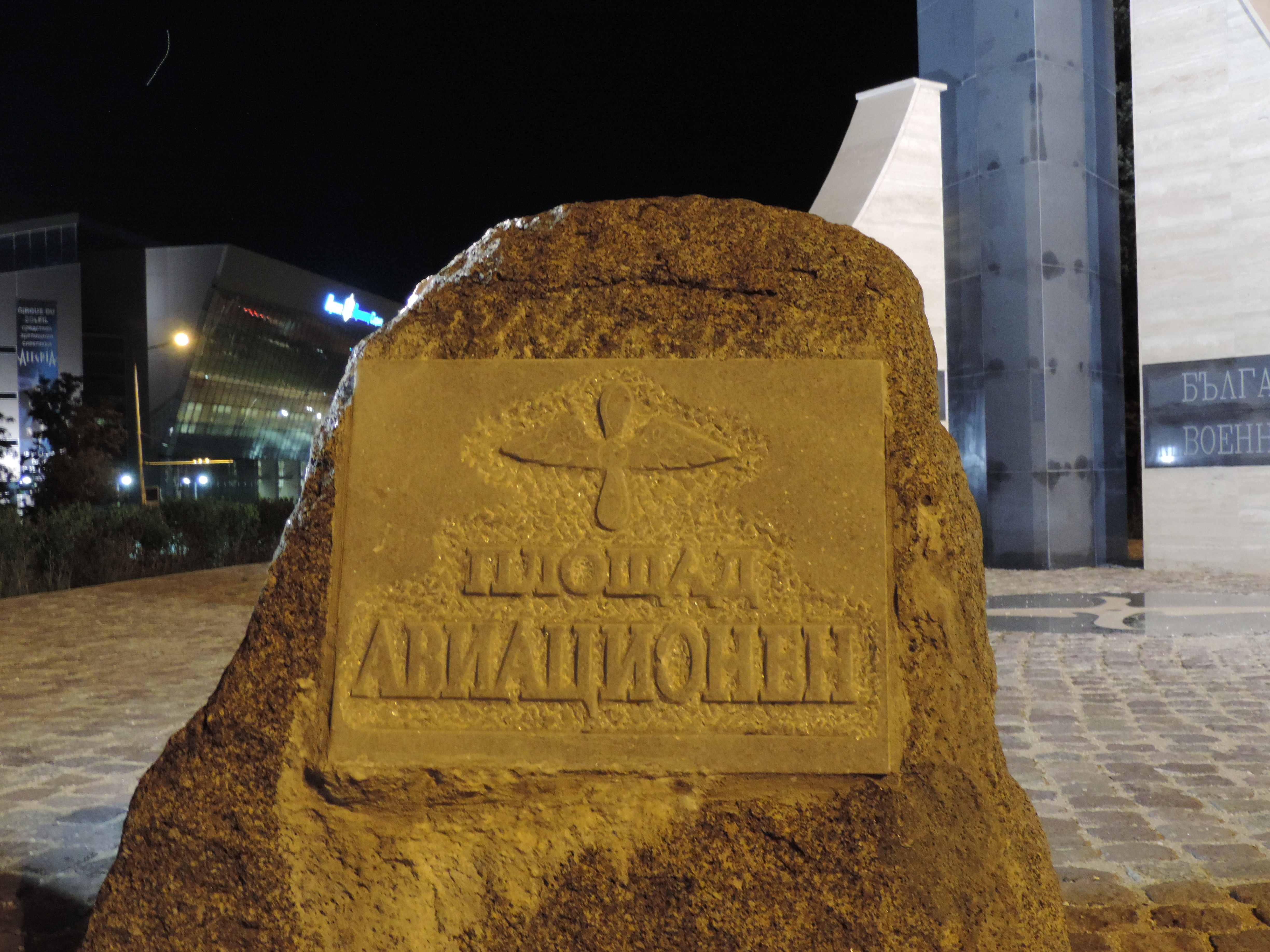 Monument of aviation and air force by night, Sofia, Bulgaria.